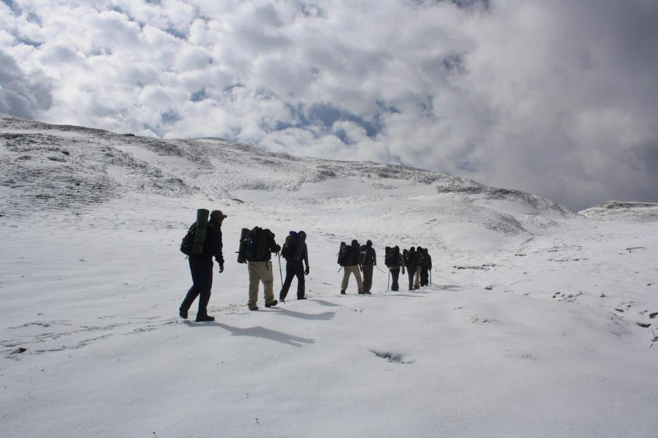 En route to Roopkun, Bedni Bugyal